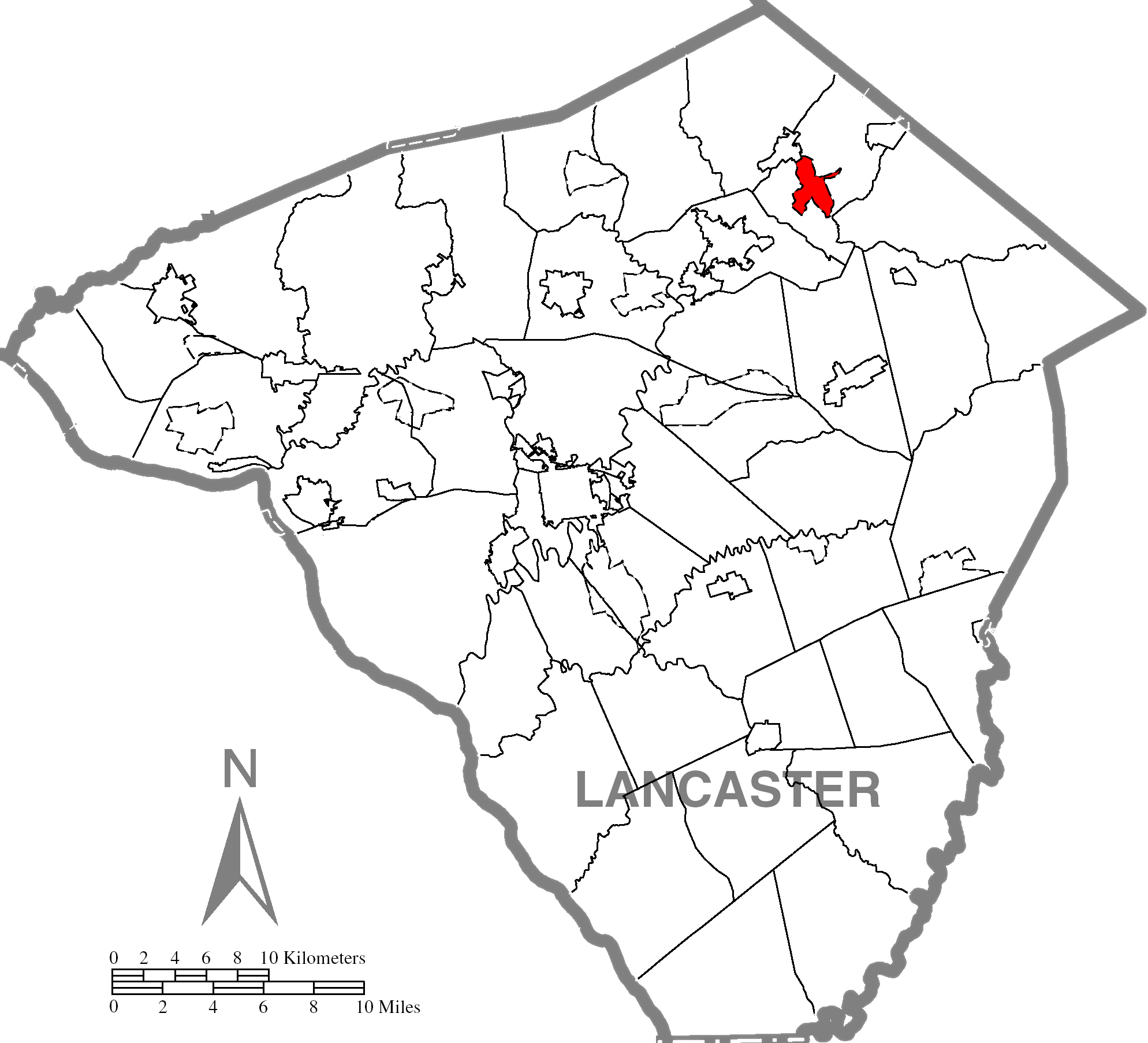 Highlighted Lancaster County map of Reamstown.